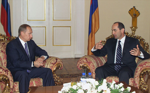 YEREVAN. President Vladimir Putin with Armenian President Robert Kocharian.